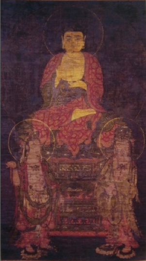 Amitabha Triad, Kakurinji, Kakogawa, Hyogo, Japan